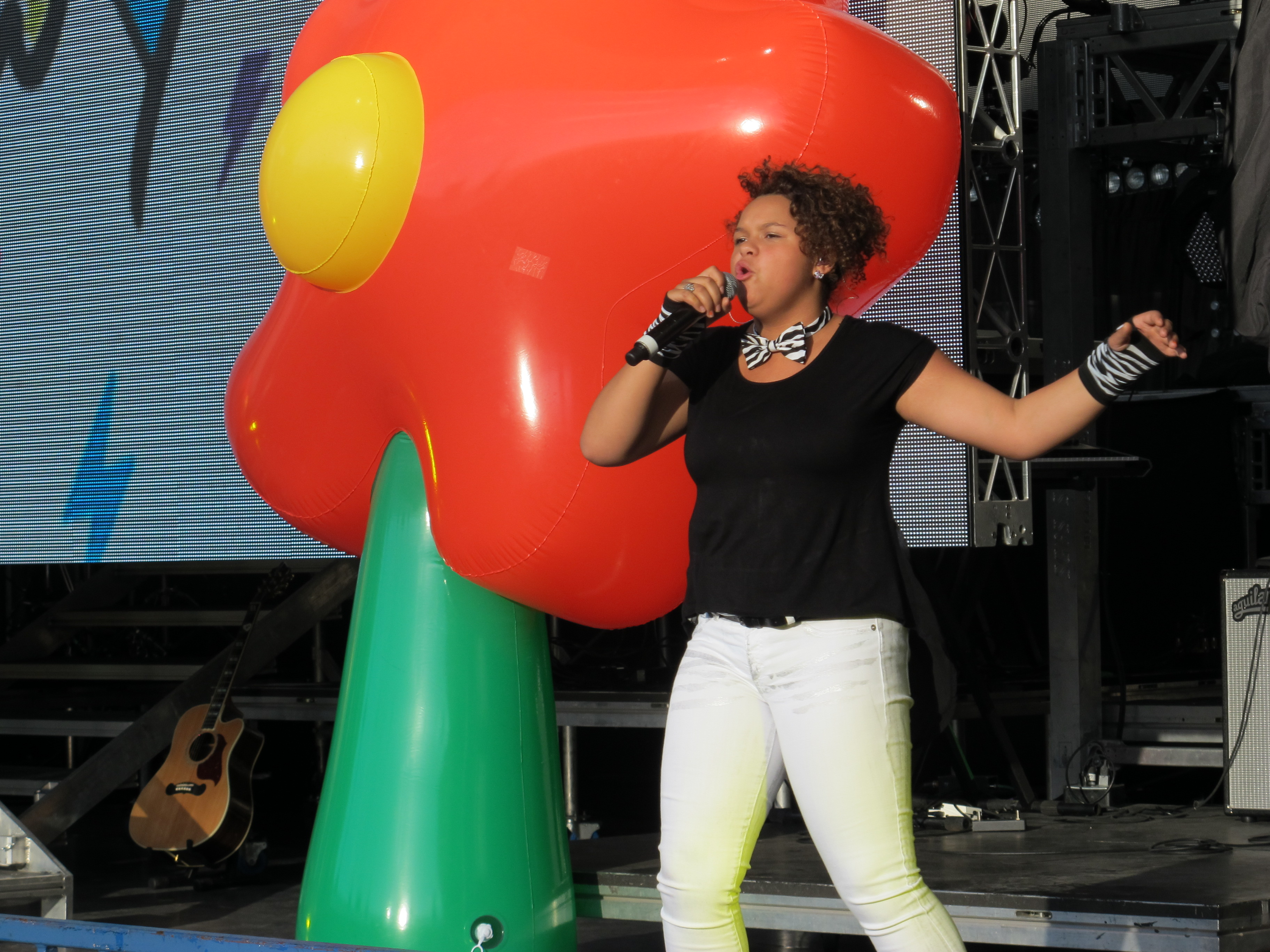 Rachel Crow performing.